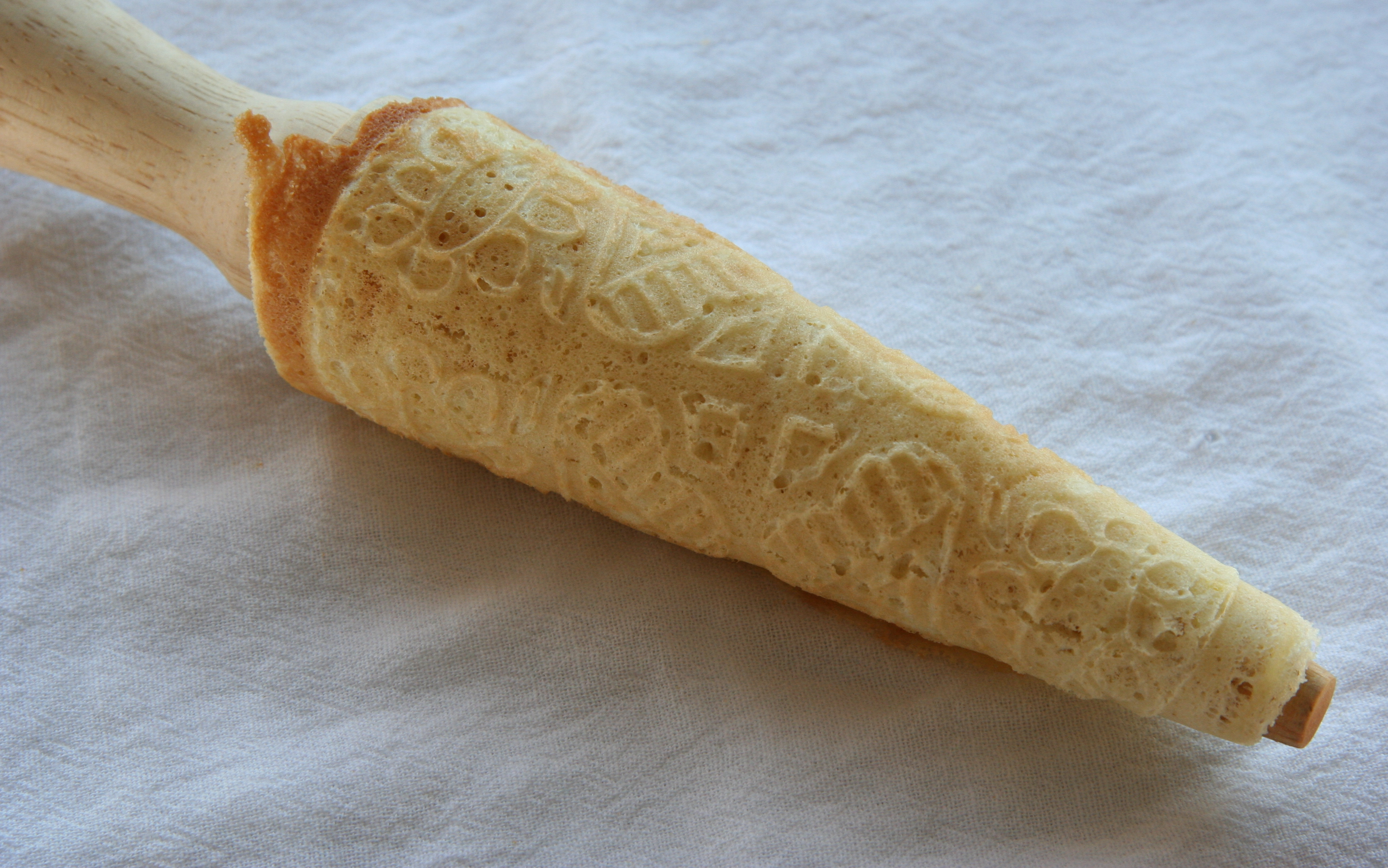 Warm krumkake fresh from the hot iron being shaped with a conical wooden rolling pin in a cooking demonstration at Vesterheim Norwegian-American Museum in Decorah, Iowa